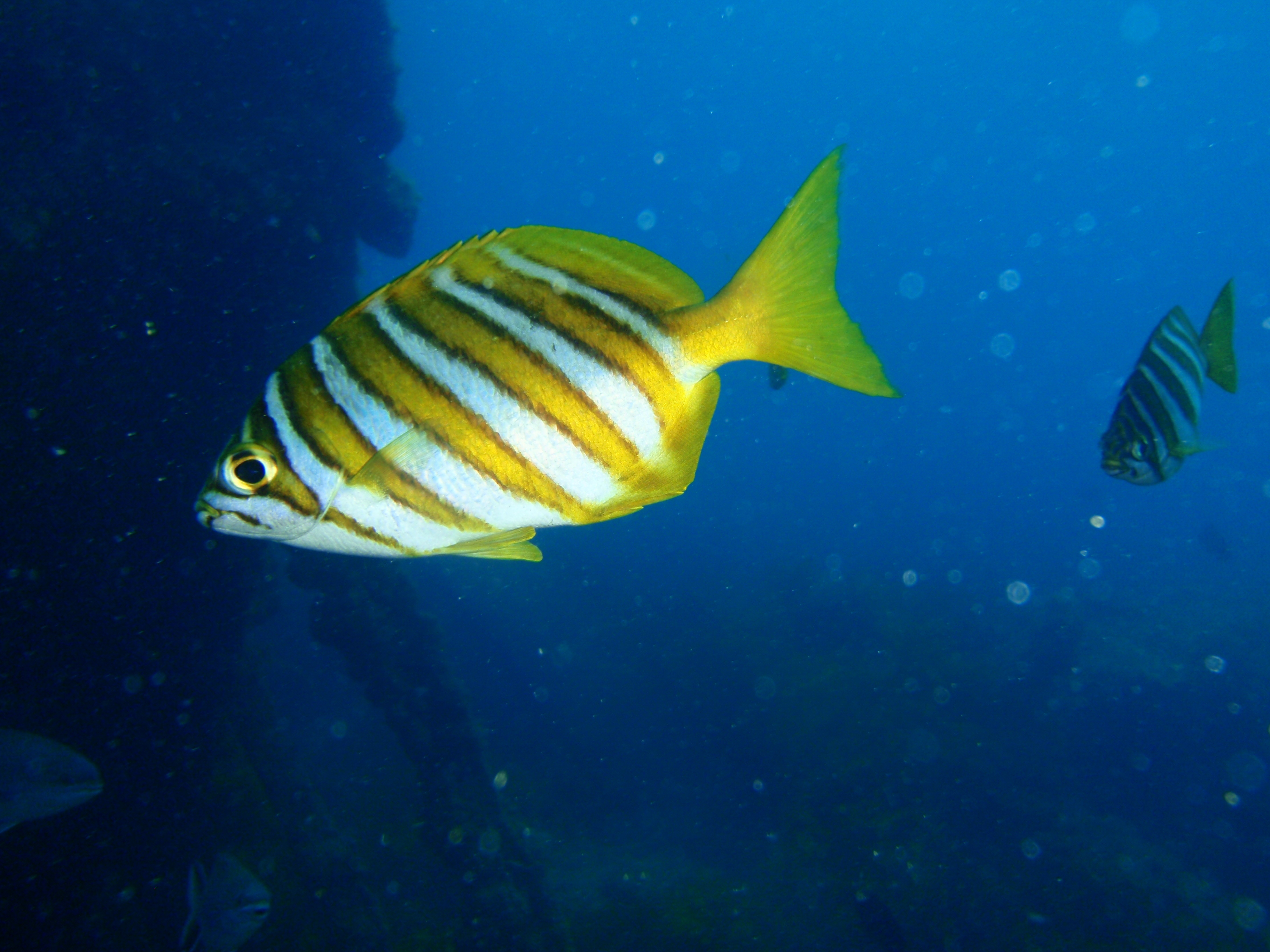 Western footballer Neatypus obliquus at Kingston Reef, Rottnest Island